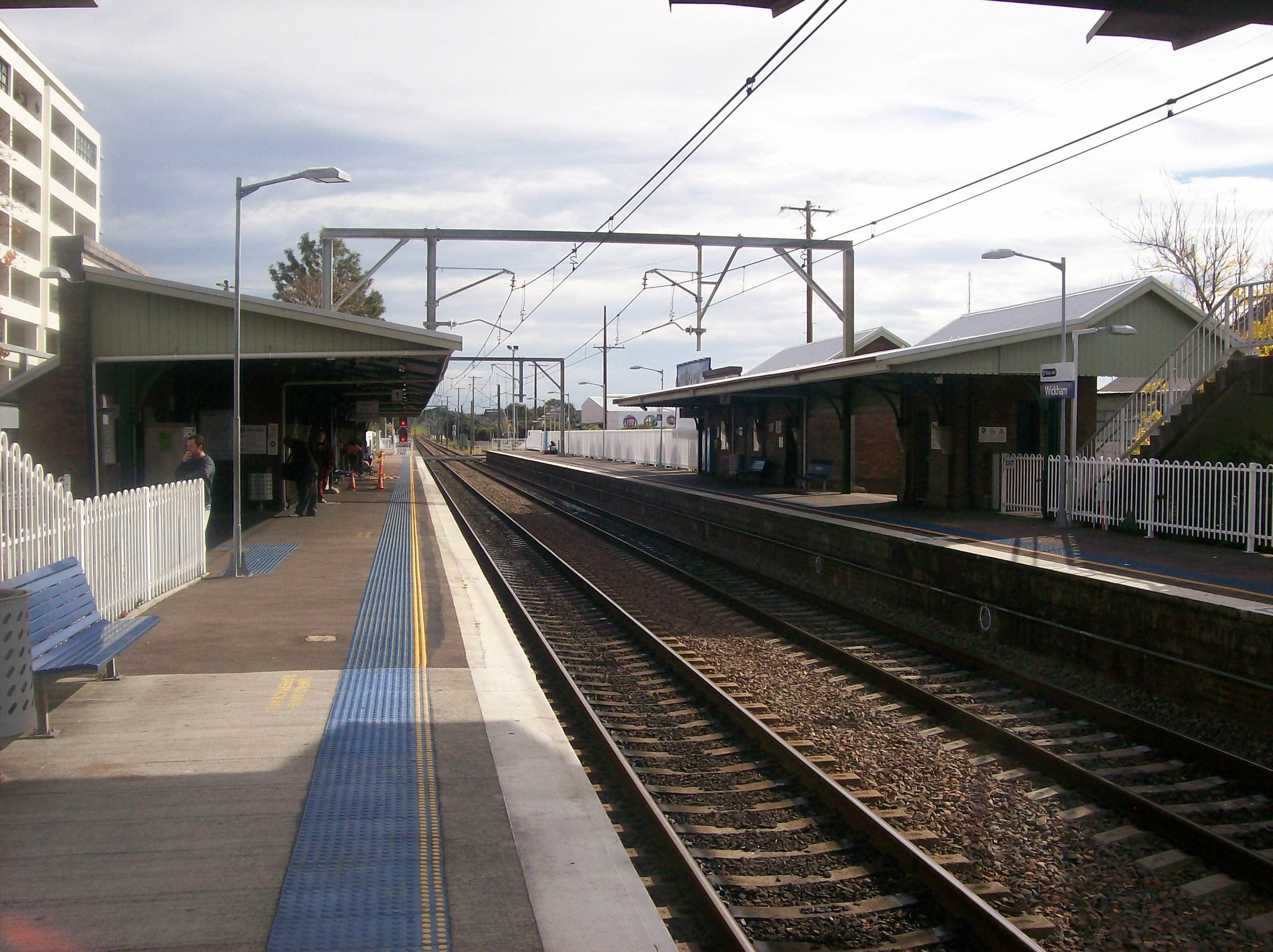 Wickham railway station, looking west on platforms